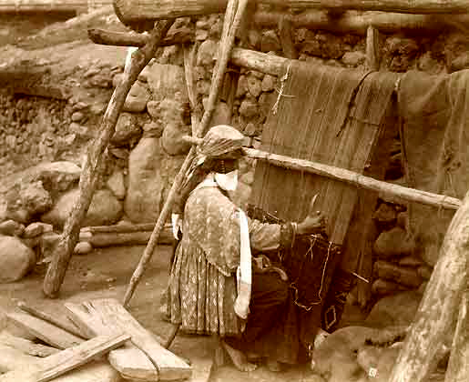 Azerbaijani woman makes a carpet